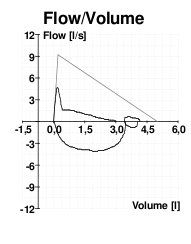 Flow Volume Curve from a spirometry test from a patient with COPD, Chronic Obstructive Pulmonary Disease